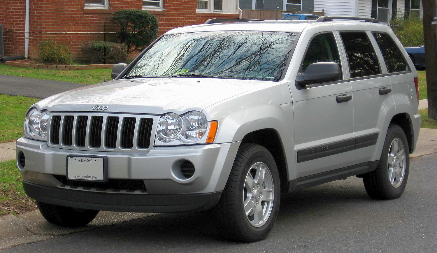 2005-2007 Jeep Grand Cherokee photographed in USA.